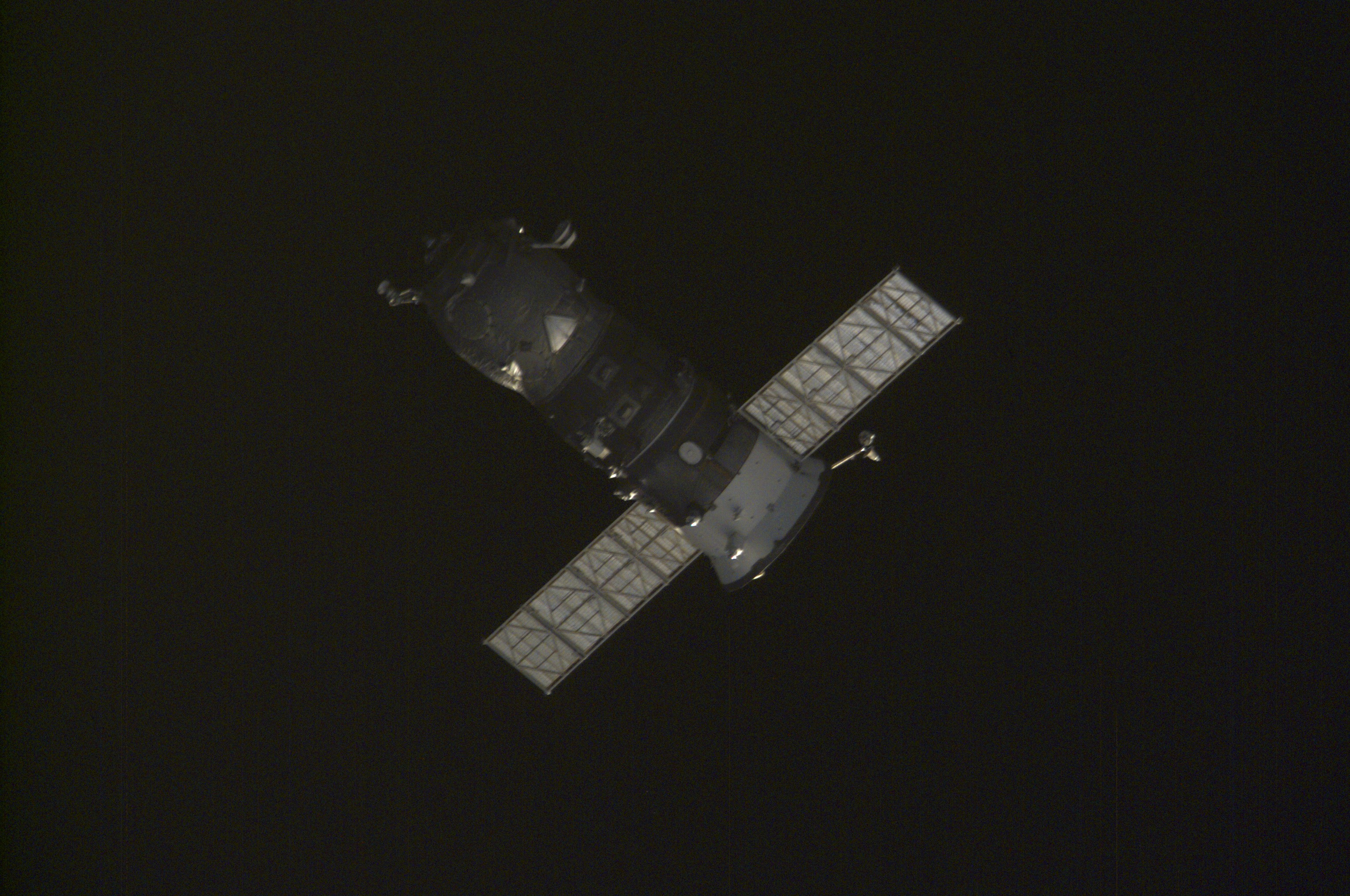 Progress M-45 seen from the International Space Station during undocking.